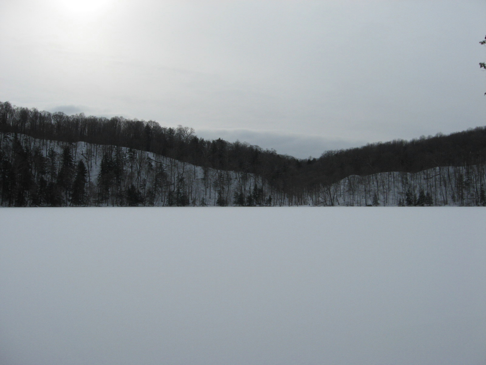 Round Lake, Green Lakes State Park, Manlius, New York, February 2015